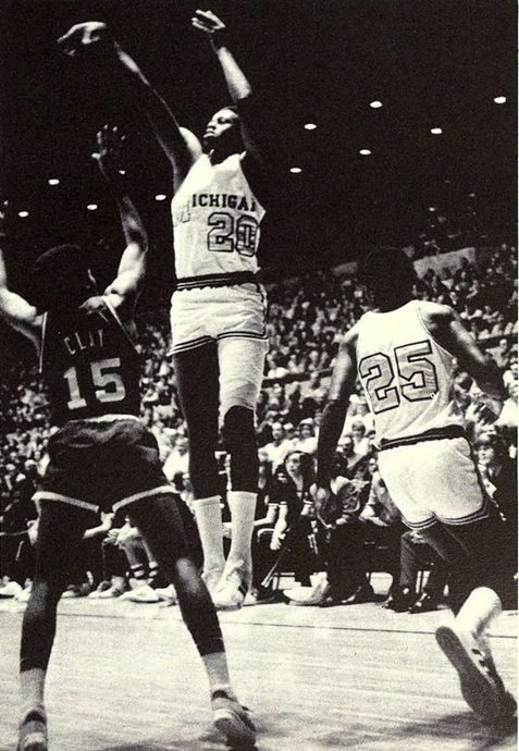 Photograph of Campy Russell (No. 20)